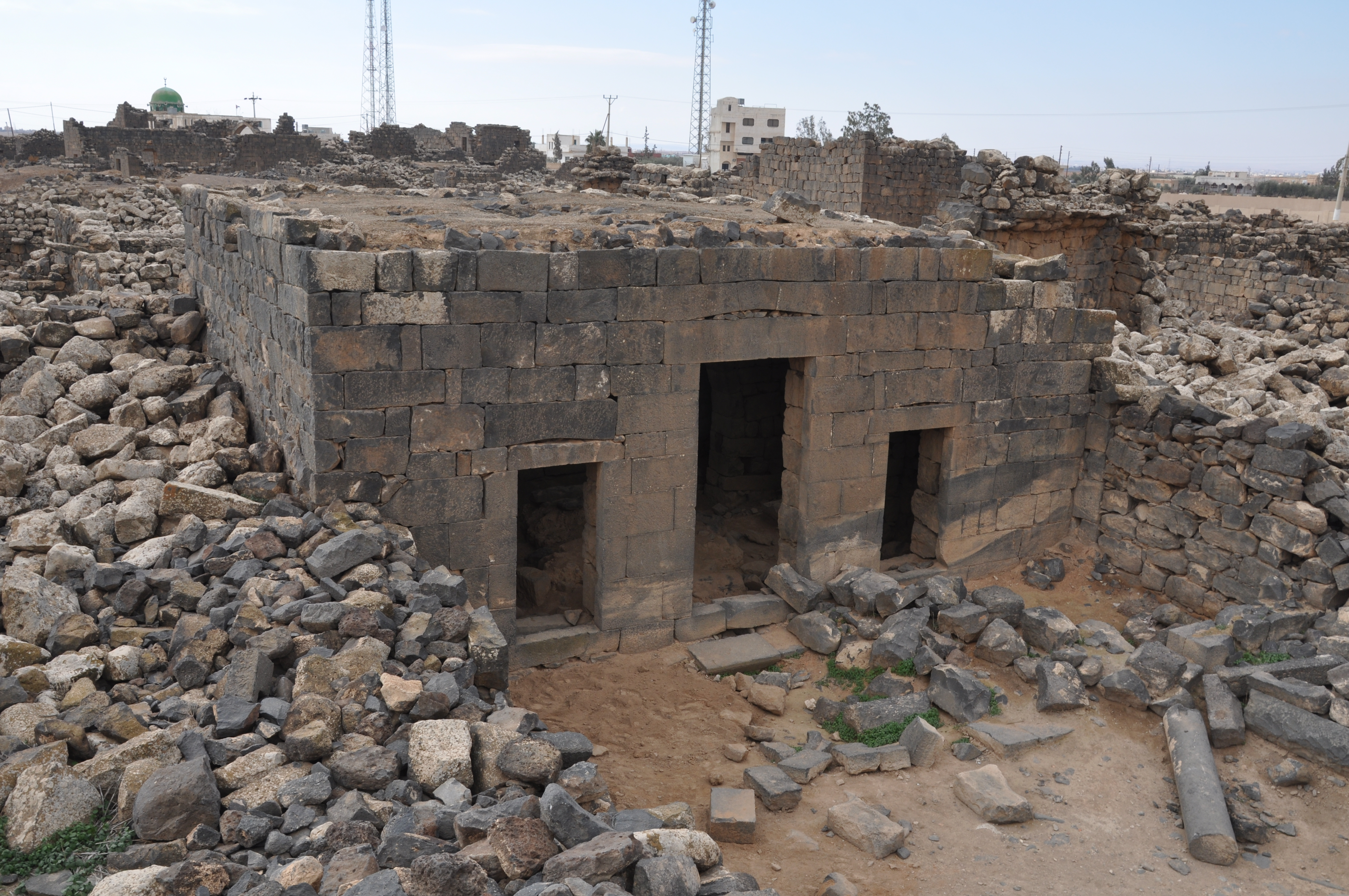 Possible Roman temple, Umm el-Jimal, Jordan